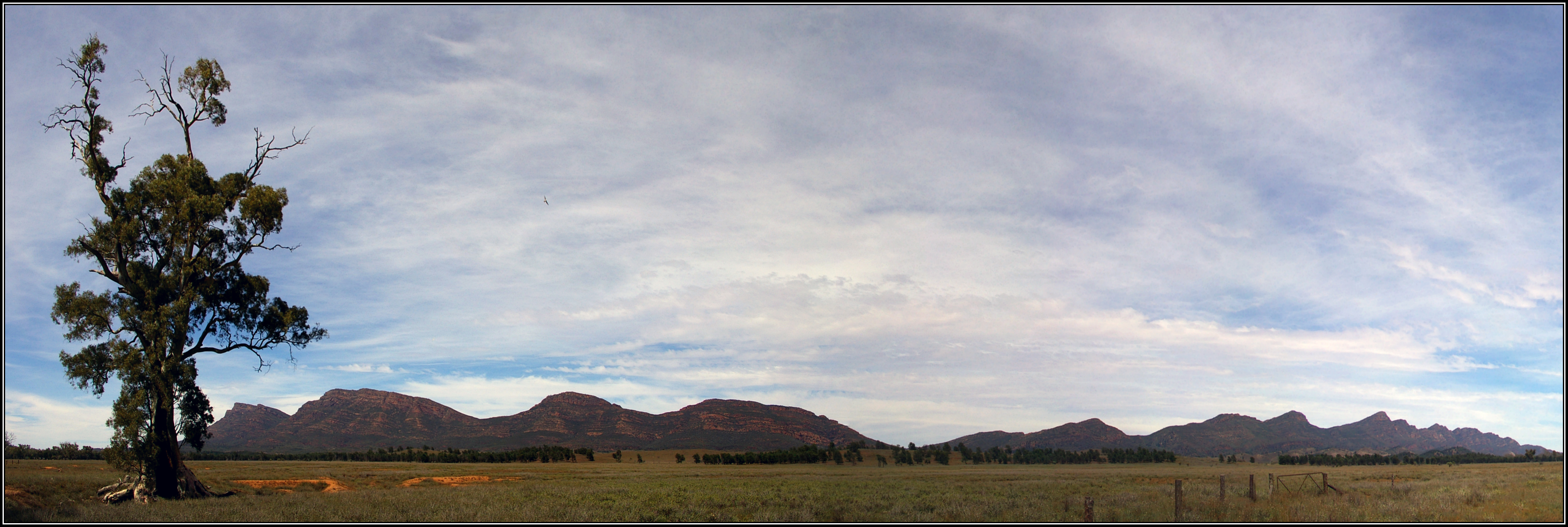 Panoramic photograph showing the Cazneaux Tree (foreground left), with Wilpena Pound in the background.